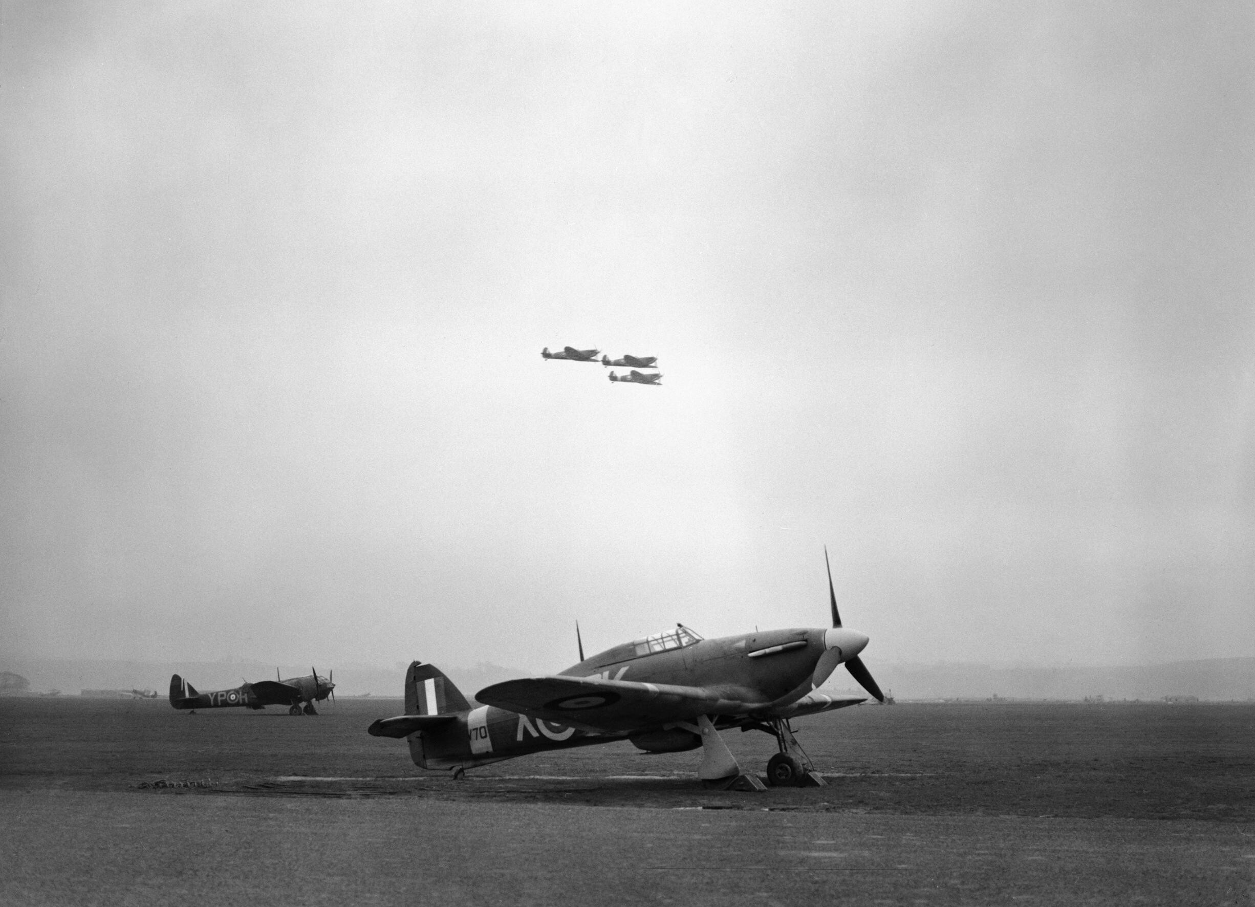 Aircraft of Fighter Command on display for the press at Grangemouth in Scotland, 25 April 1941. In the foreground is a Hawker Hurricane Mk I of No. 315 (Polish) Squadron; in the background a Bristol Blenheim Mk IF of No. 23 Squadron; and overhead, three Supermarine Spitfires of No. 58 Operational Training Unit. Aircraft of Fighter Command displayed at Grangemouth, Stirlingshire, during a visit by Scottish newspaper correspondents. In the foreground is a Hawker Hurricane Mark I of No. 315 Polish Fighter Squadron RAF based at Speke, Liverpool; in the background a Bristol Blenheim Mark IF of No. 23 Squadron RAF based at Ford, Sussex, while, overhead, three Supermarine Spitfires, flown by the flying instructors of No. 58 Operational Training Unit based at Grangemouth, prepare to give a flying demonstration.